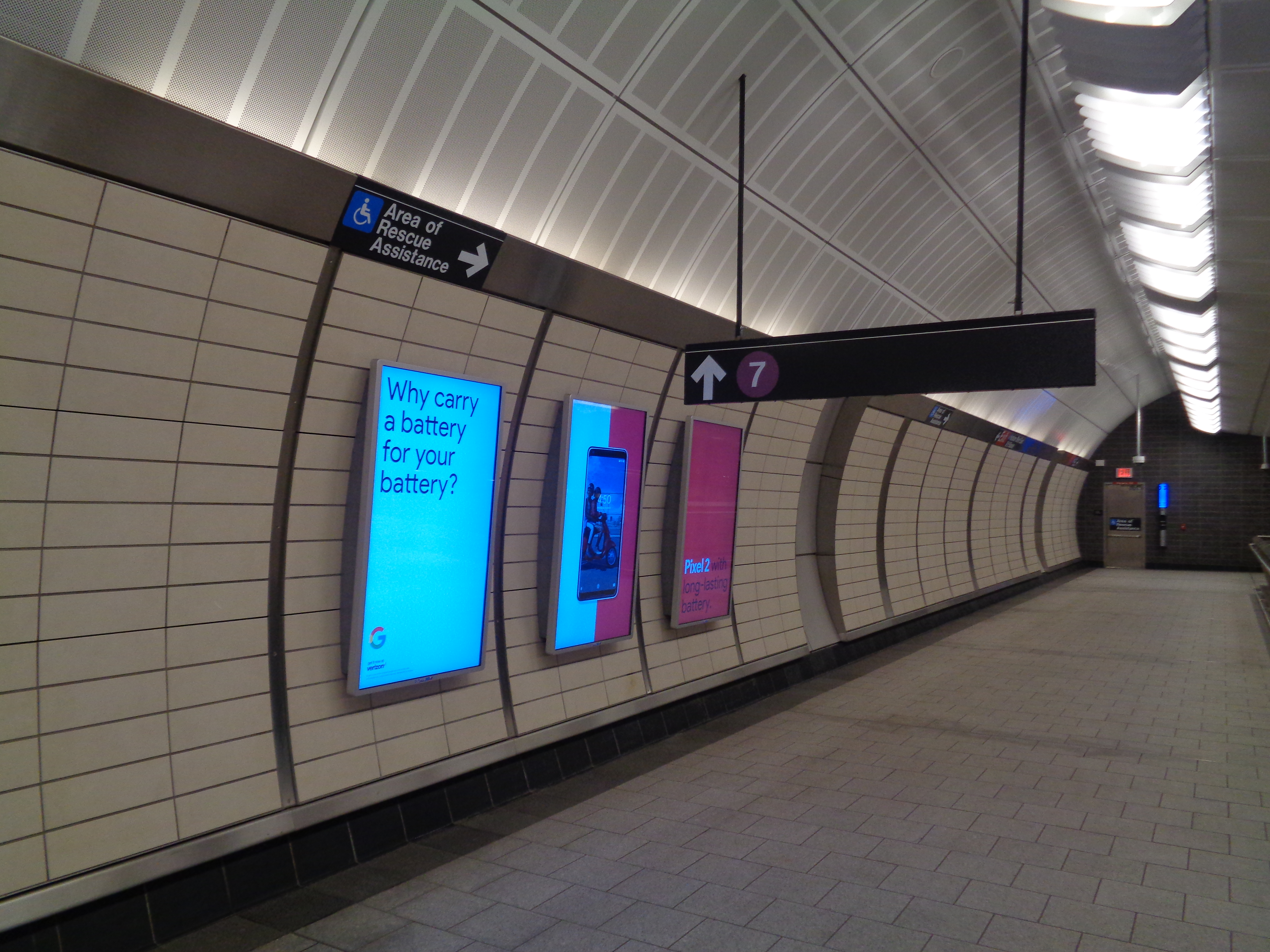 The lower mezzanine of the 34th Street – Hudson Yards subway station in Hudson Yards, Manhattan.